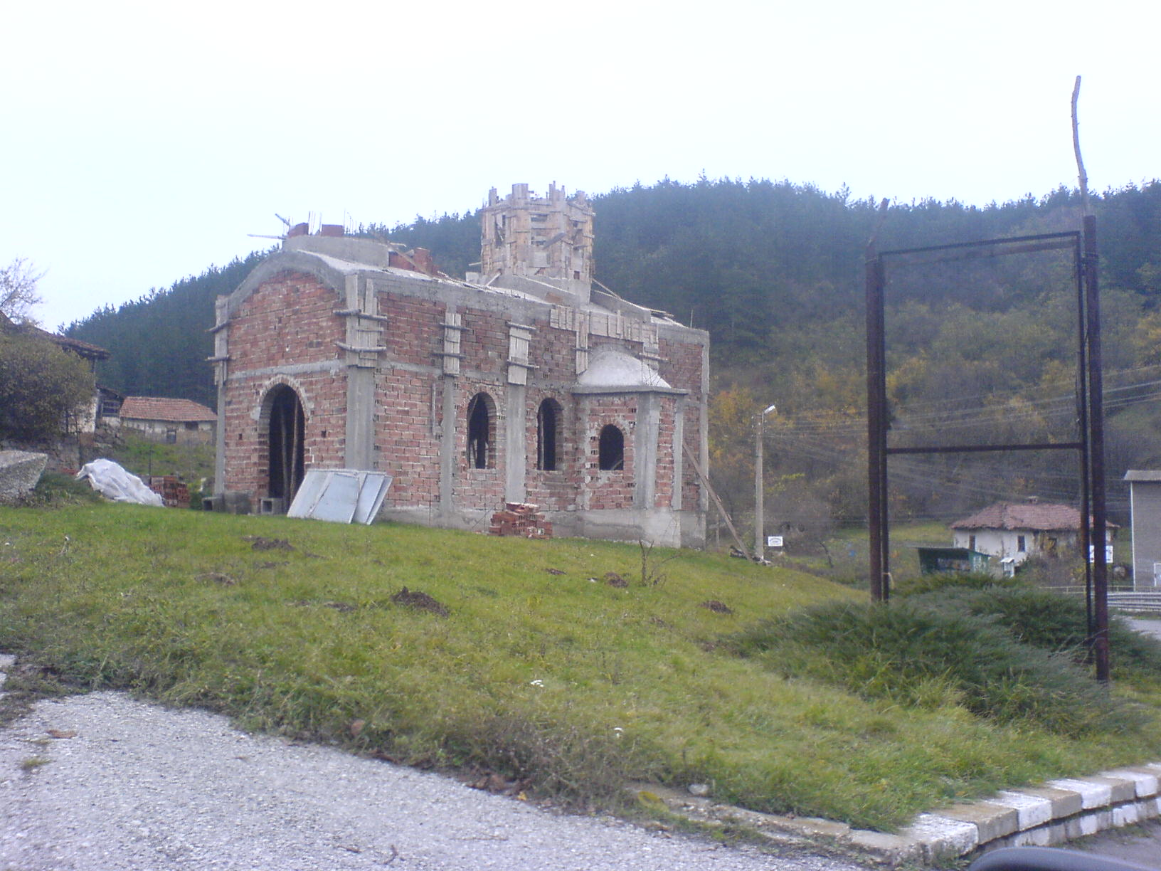 New church "Sveti Iliya", village Gurgulyat, Bulgaria.